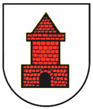 Coat of arms of Ölbronn-Dürrn